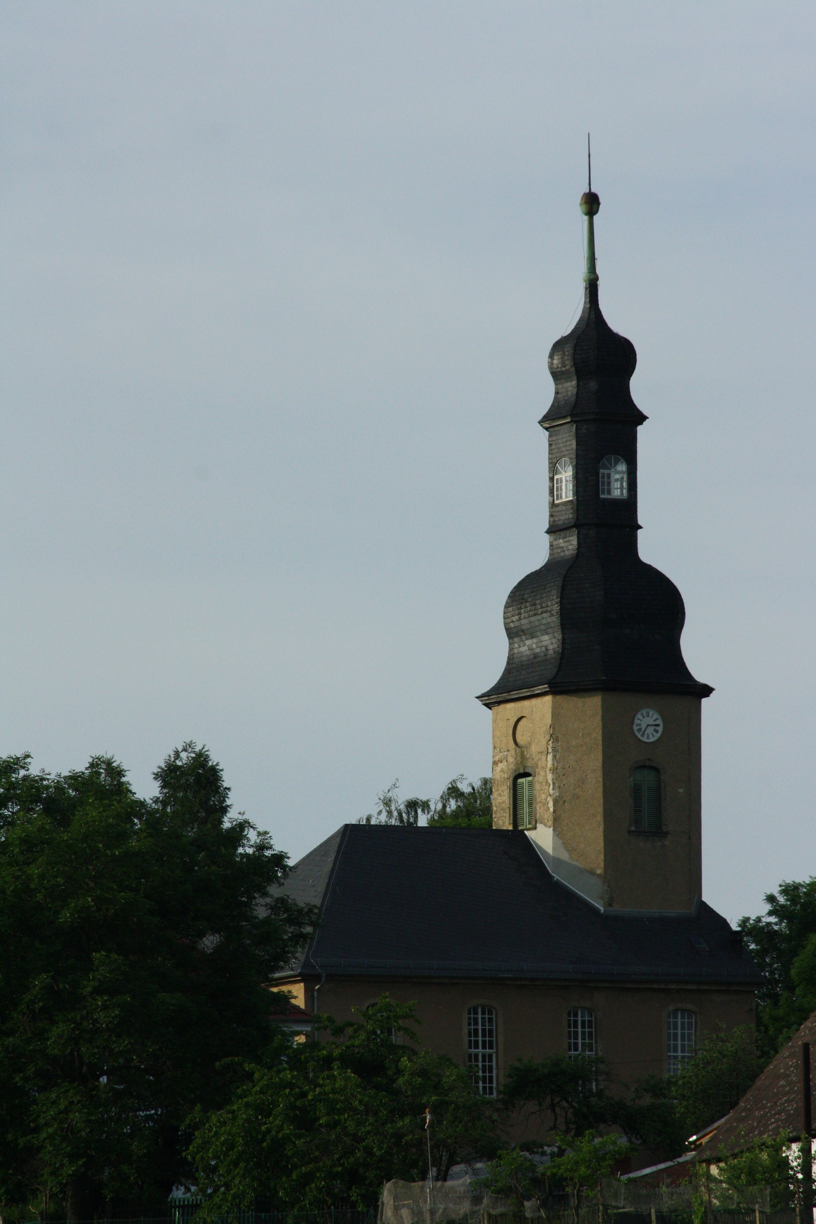 Church in Brahmenau-Groitschen near Gera/Thuringia